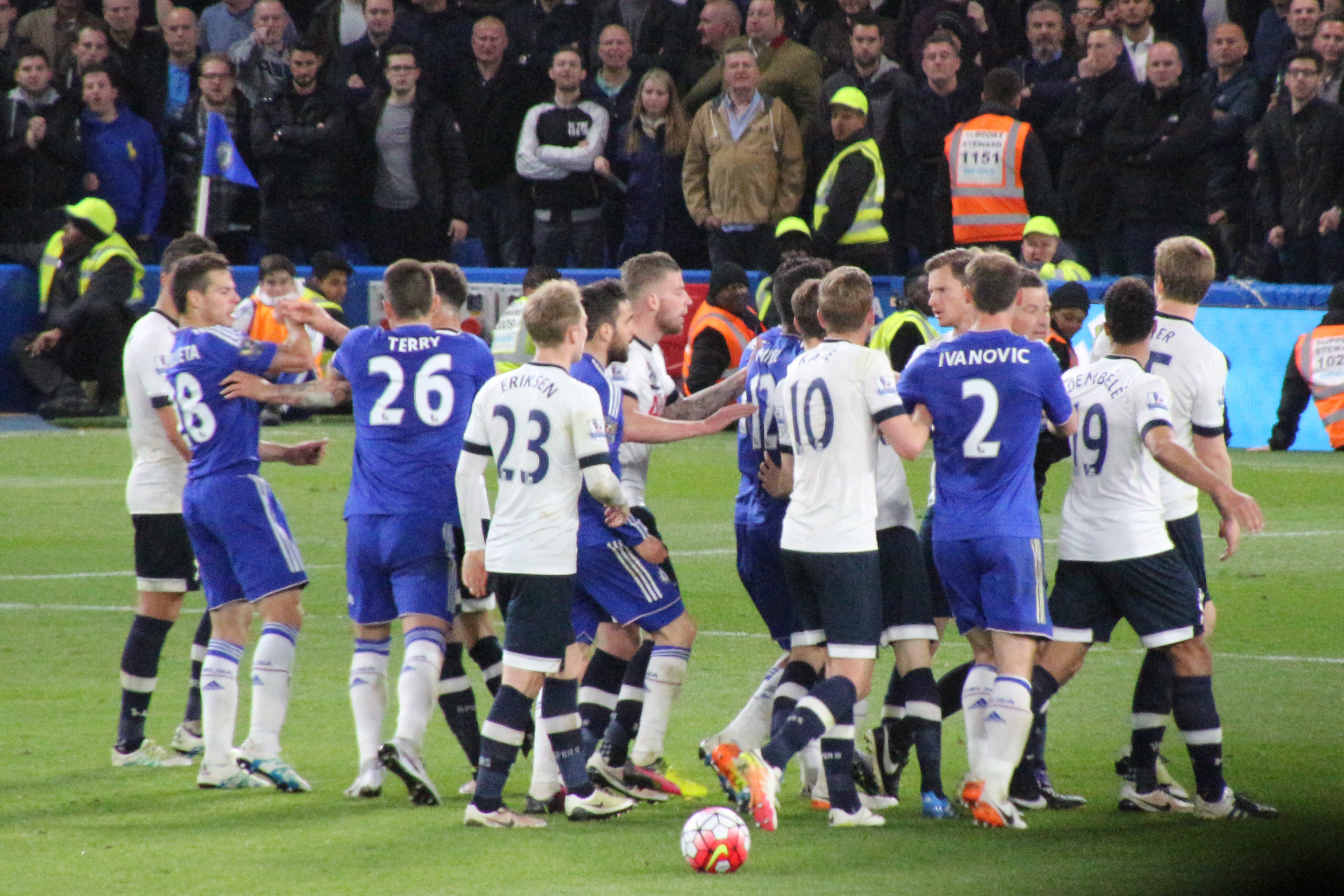 Chelsea v Spurs 2 May 2016, a match dubbed the Battle of Stamford Bridge. A group of players engaged in dispute and scuffling